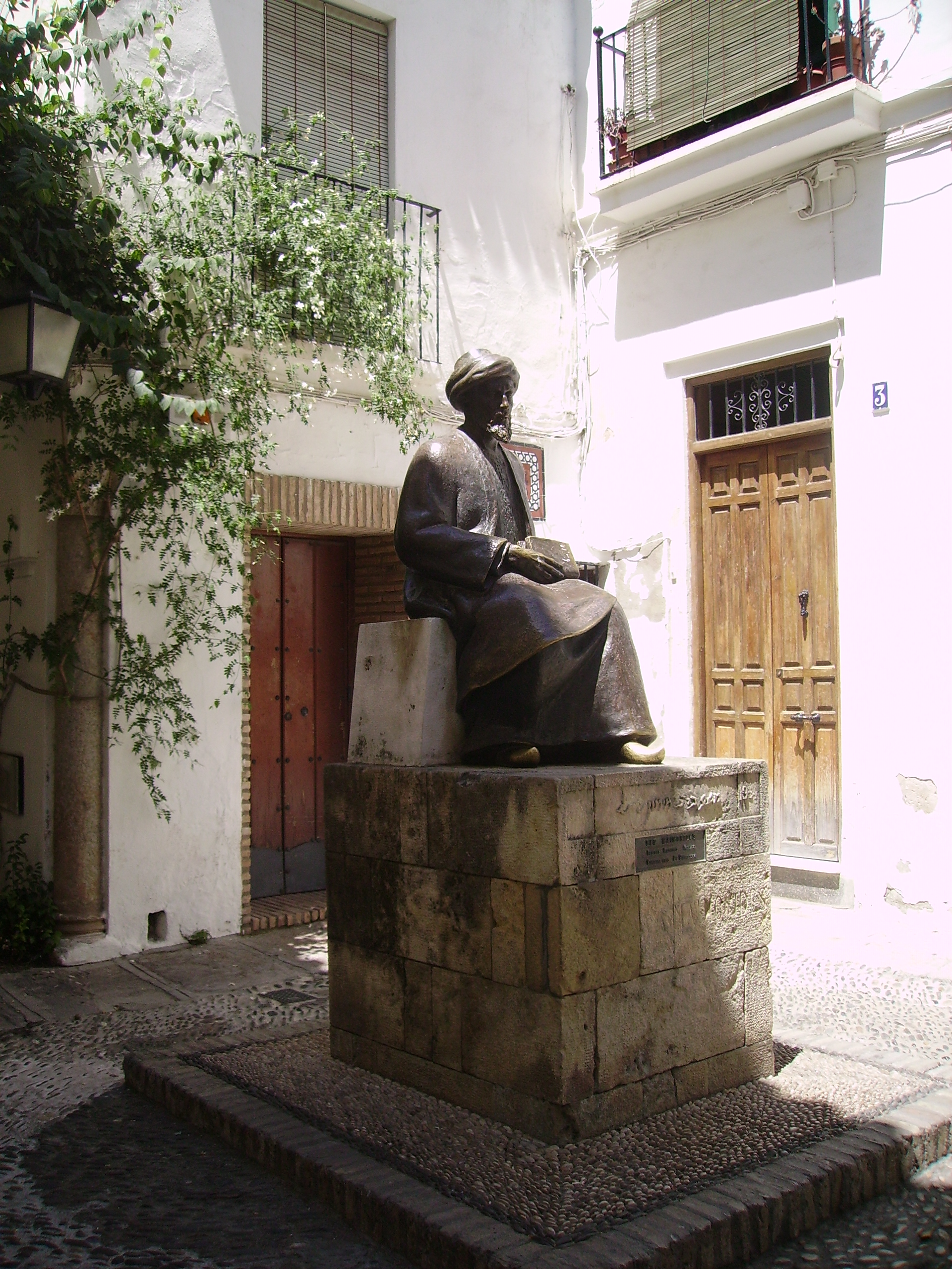 House and sculpture of Maimonides, in Córdoba (Spain).